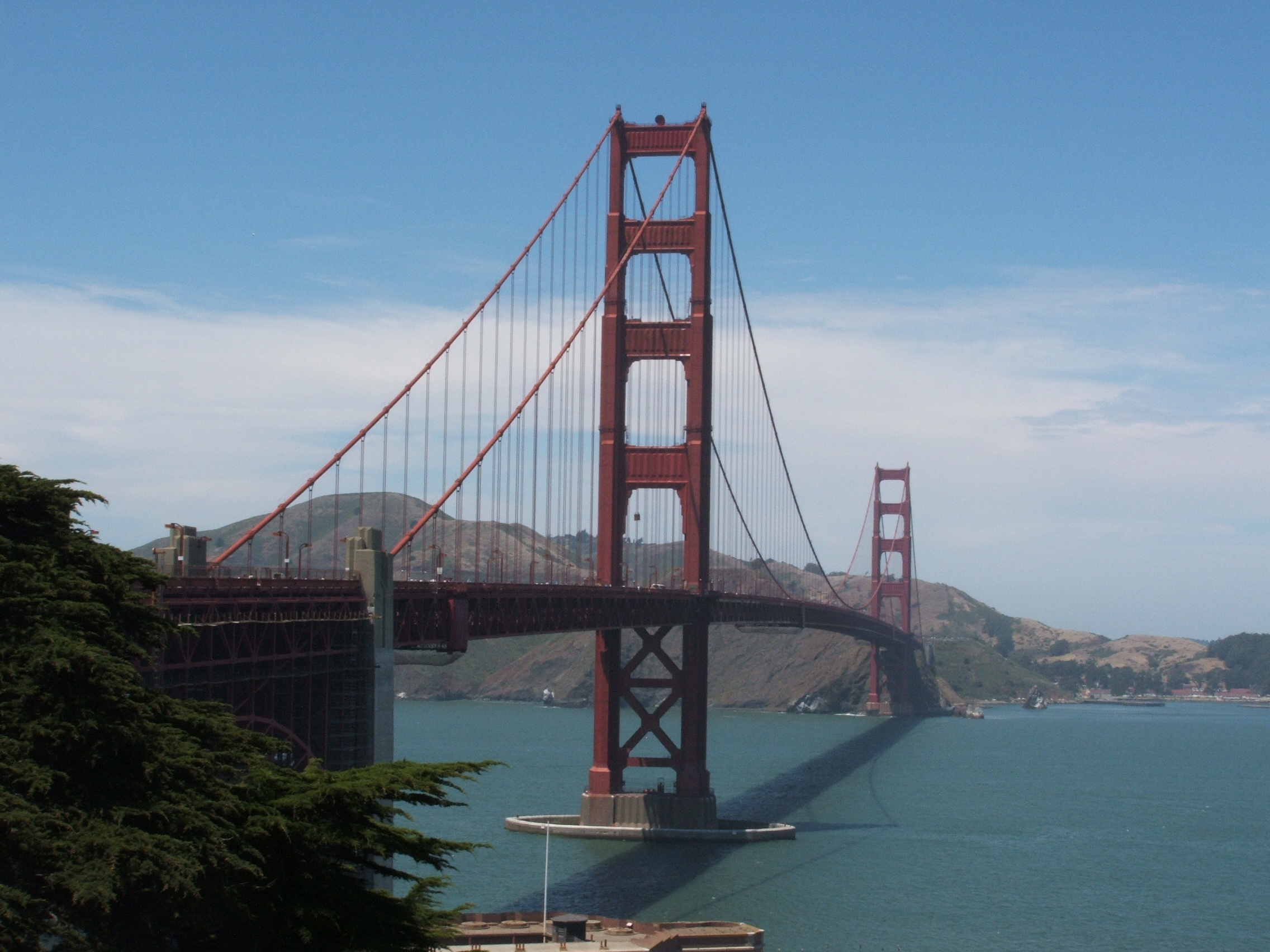 Golden Gate Bridge.